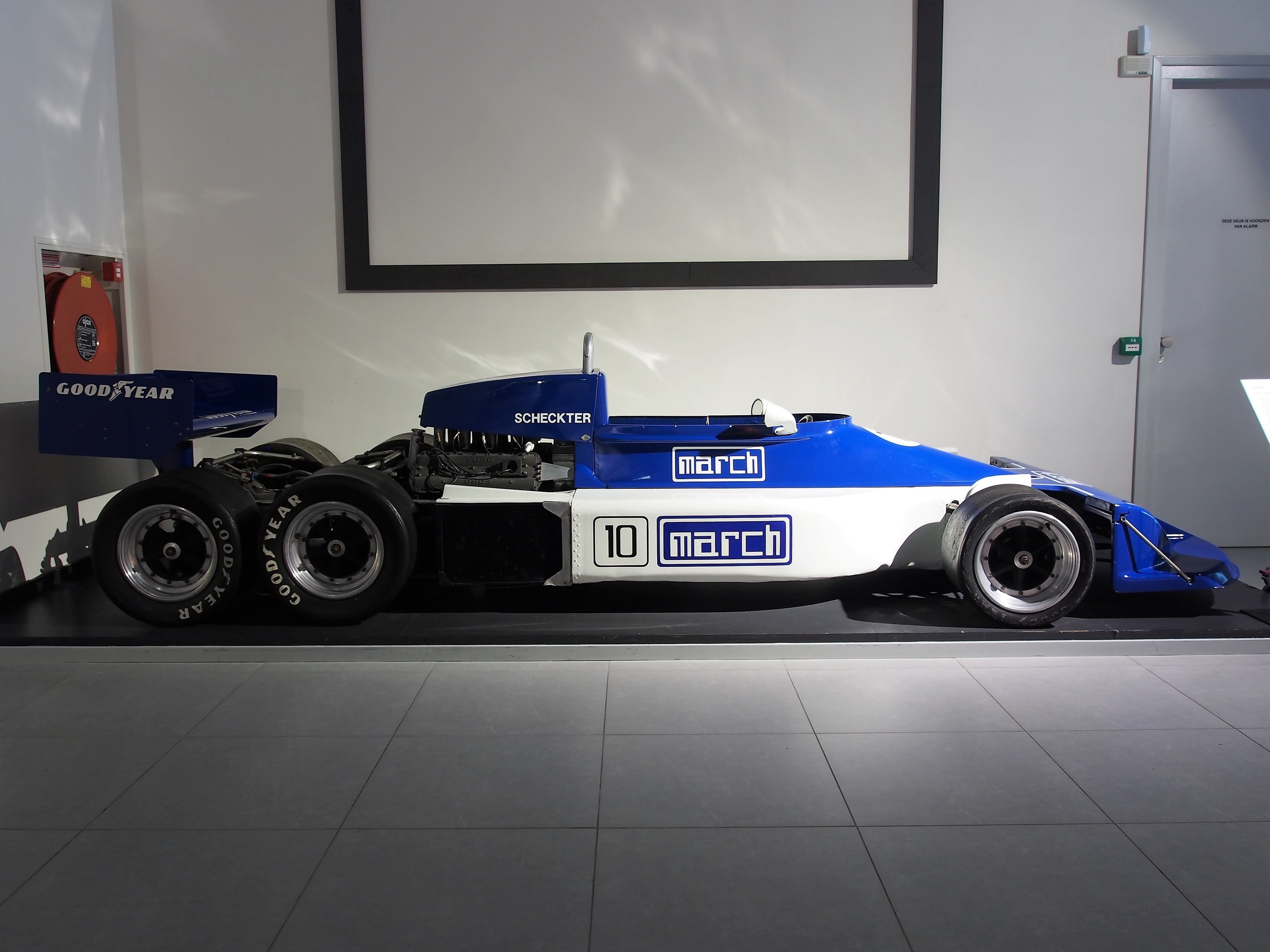 1976 March 240/771 Formula 1 photographed at the Louwman museum.